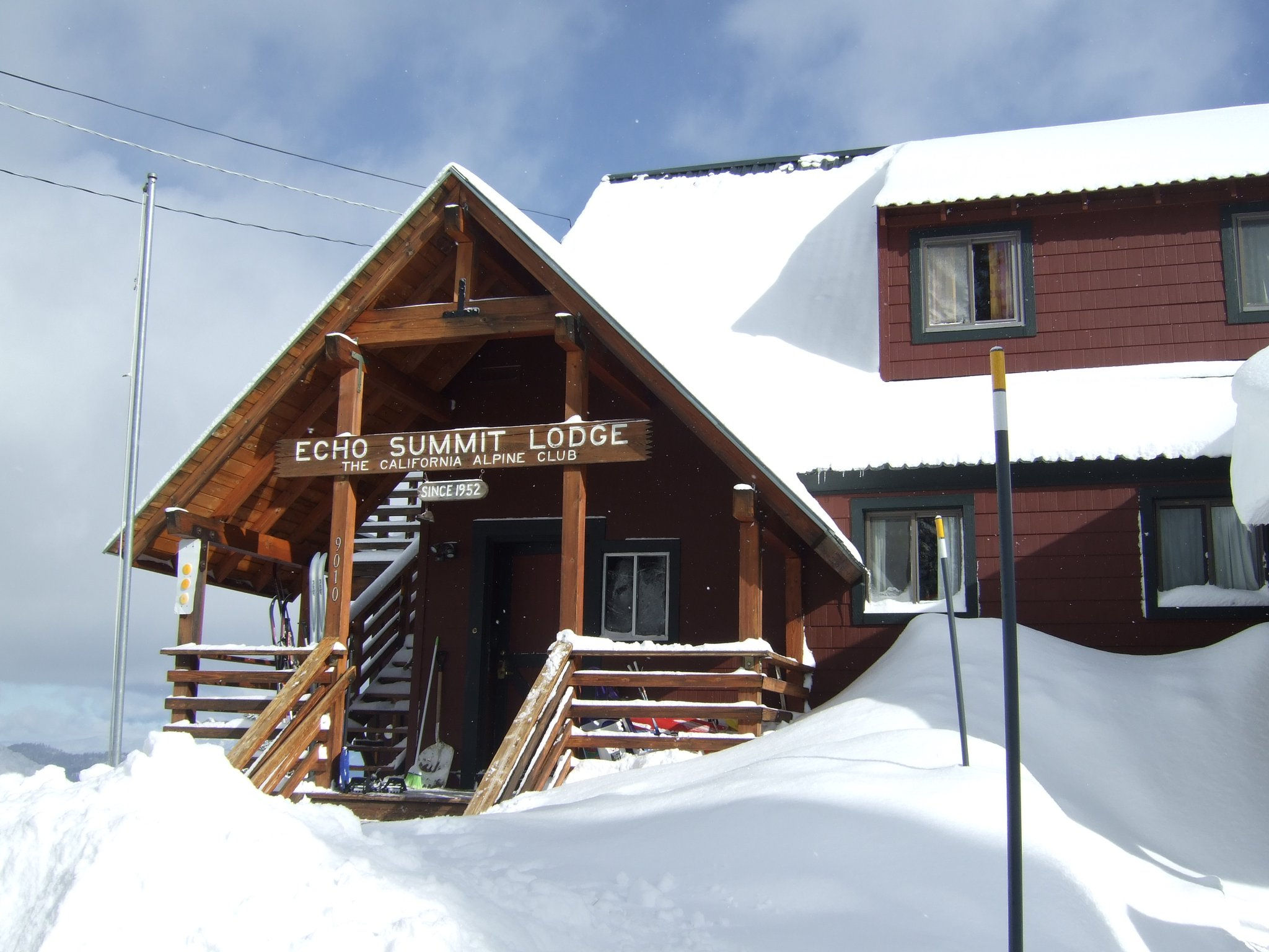 Echo Lodge at Echo Lake, California near Lake Tahoe. Owned and operated by the California Alpine Club.